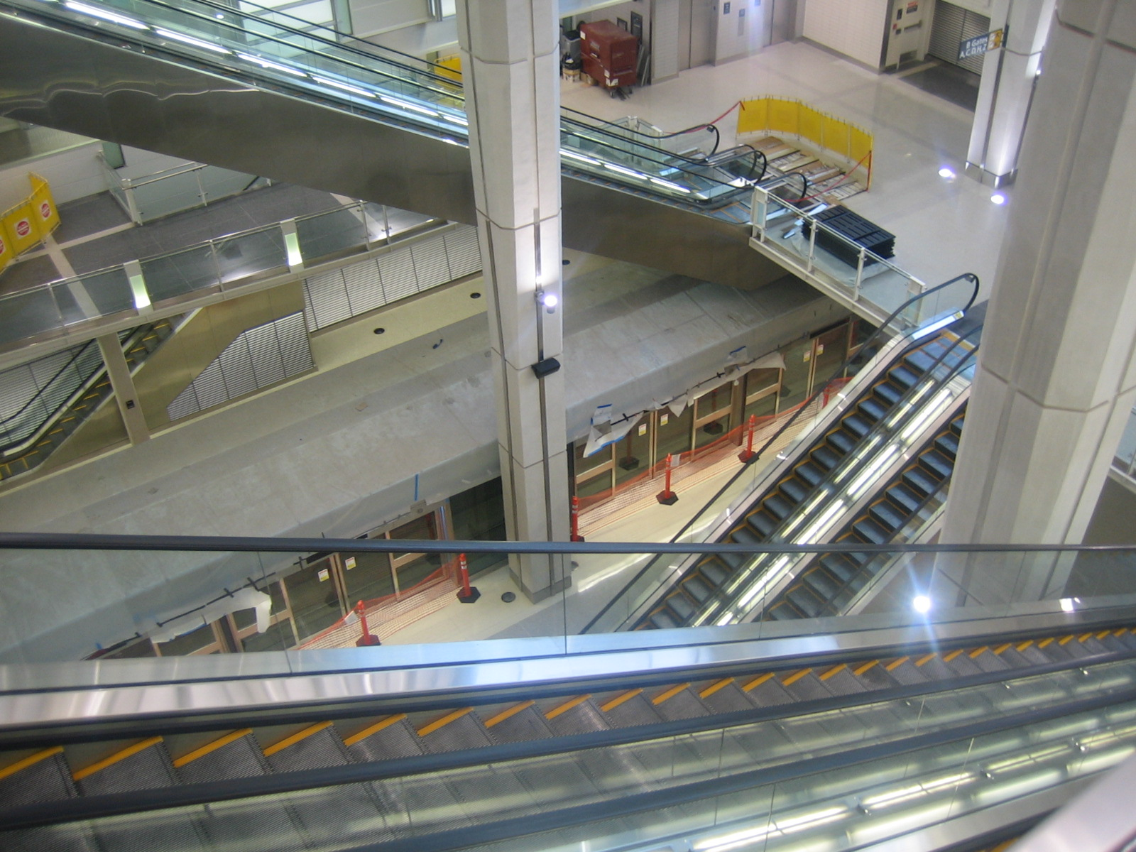 Dulles Washington Airport AeroTrain almost finished construction but it is still not open to public.